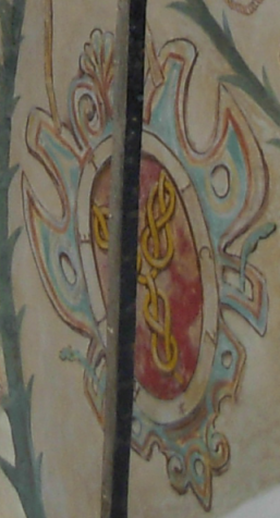 Kietlicz coat of arms in Baranow-Sandomierski castle. Detail of Image:Baranów Sandomierski - castle 04.JPG full resolution, by User:Piotrus and tagged with the same “self2.GFDL.cc-by-sa-2.5,2.0,1.0” license.